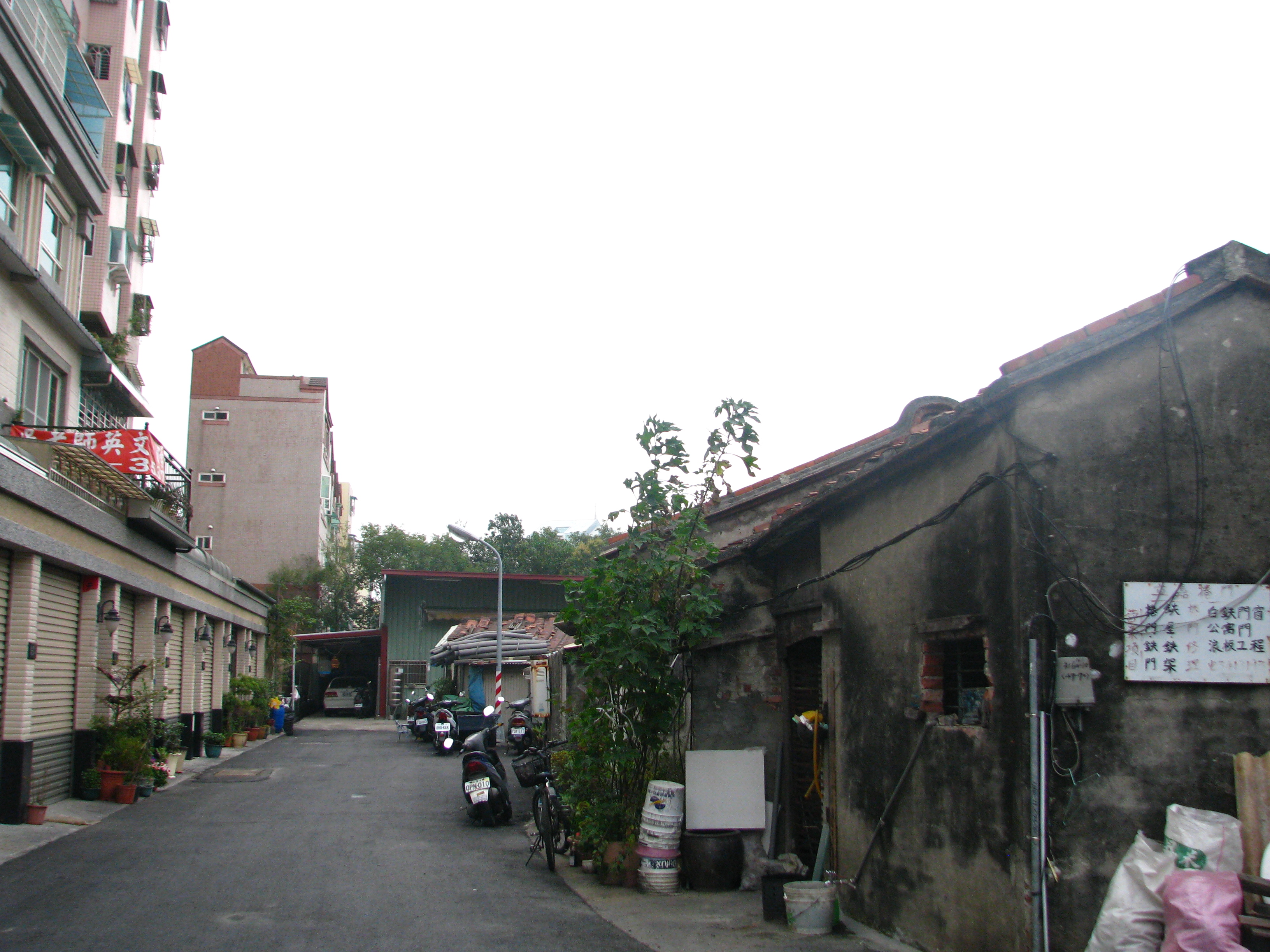 A old place name in Sanmin District, Kaohsiung, Taiwan.